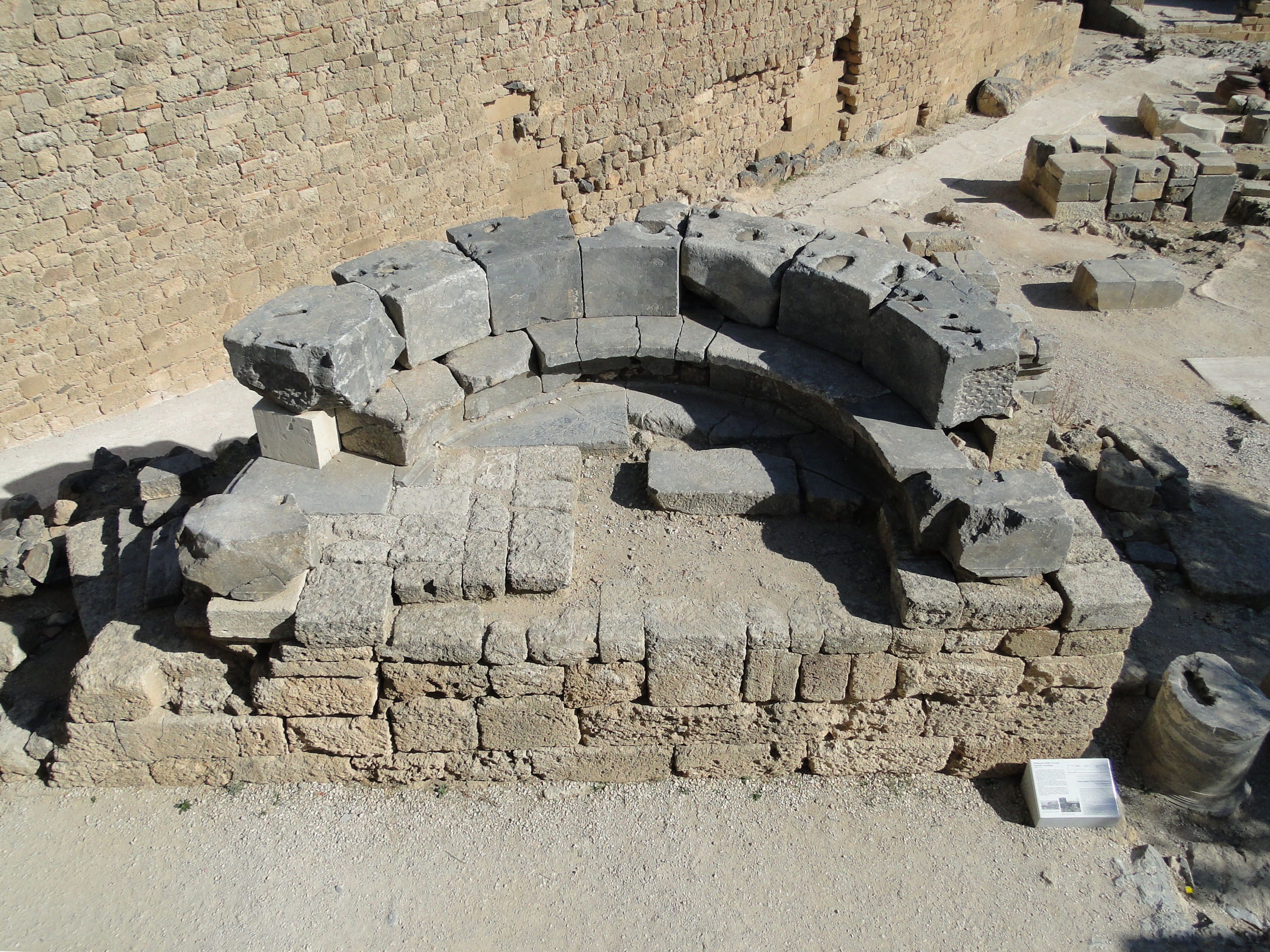 Exedra of the priest Pamphilidas, Acropolis of Lindos, Rhodes, Greece